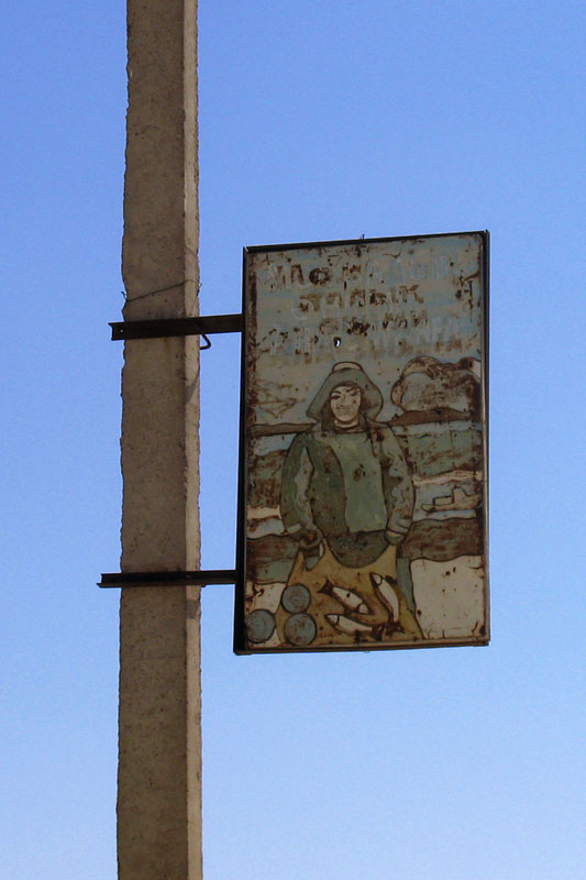 A placard in downtown Mo‘ynoq (Uzbekistan), showing the former main activity in the town : fishing.